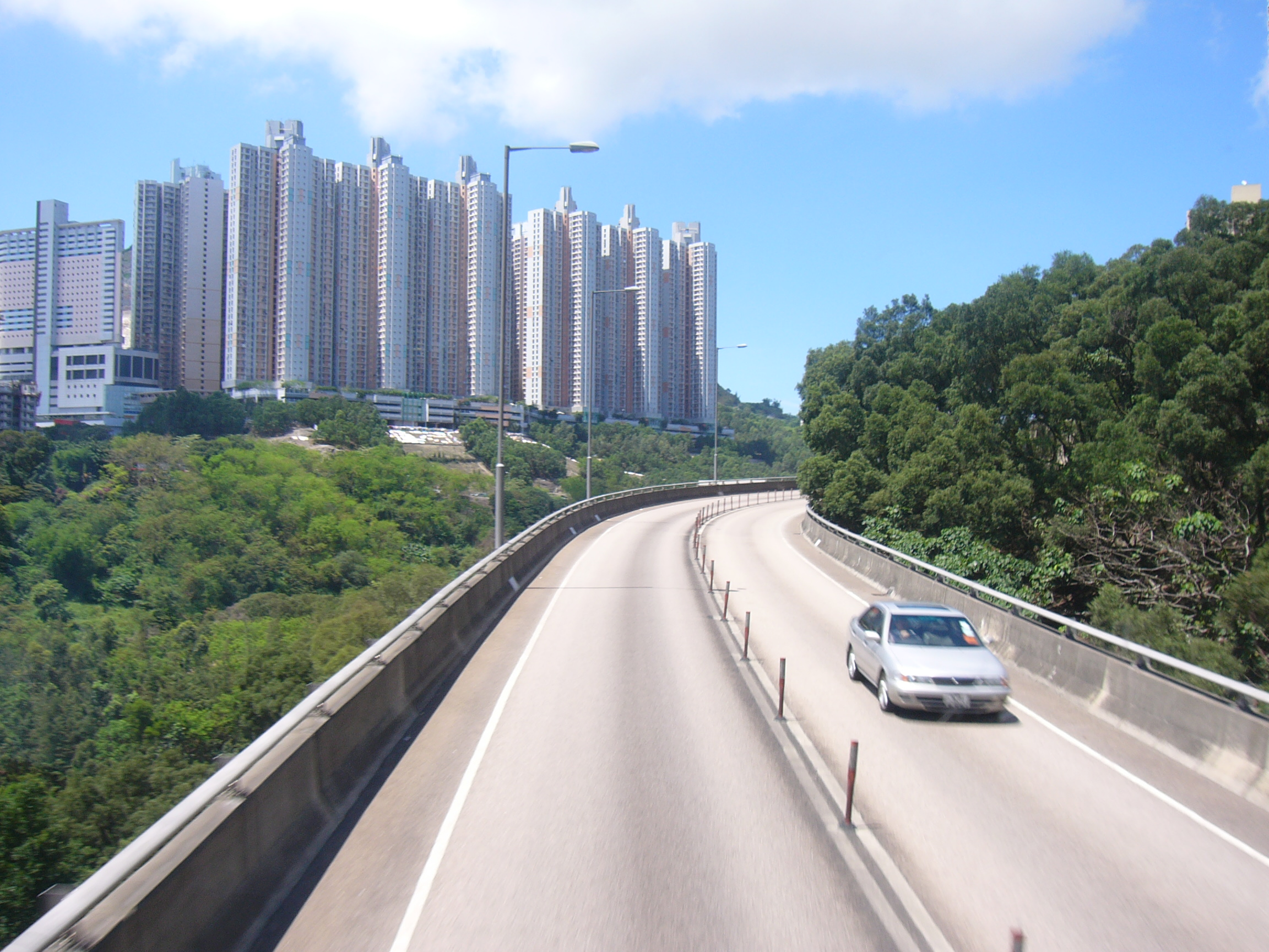 Sau Mau Ping viewed from Lin Tak Road